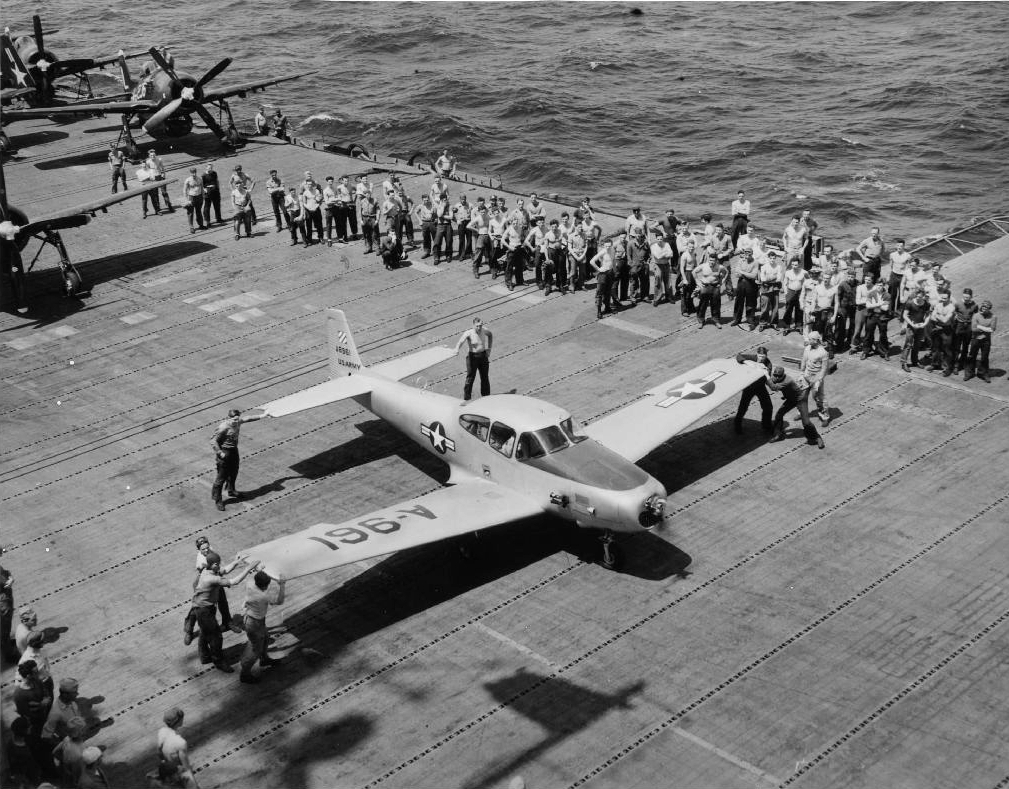 A U.S. Army Ryan L-17A Navion (s/n 48-961) on the U.S. Navy aircraft carrier USS Leyte (CV-32), in 1950. In the background is a Grumman F8F-1 Bearcat from Fighter Squadron VF-72 Bearcats, Carrier Air Group 7 (CVG-7).